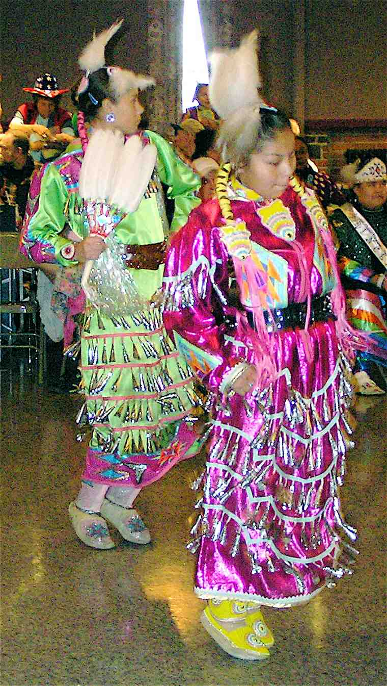 Image from Last Chance Community Pow Wow 2007, Helena, Montana